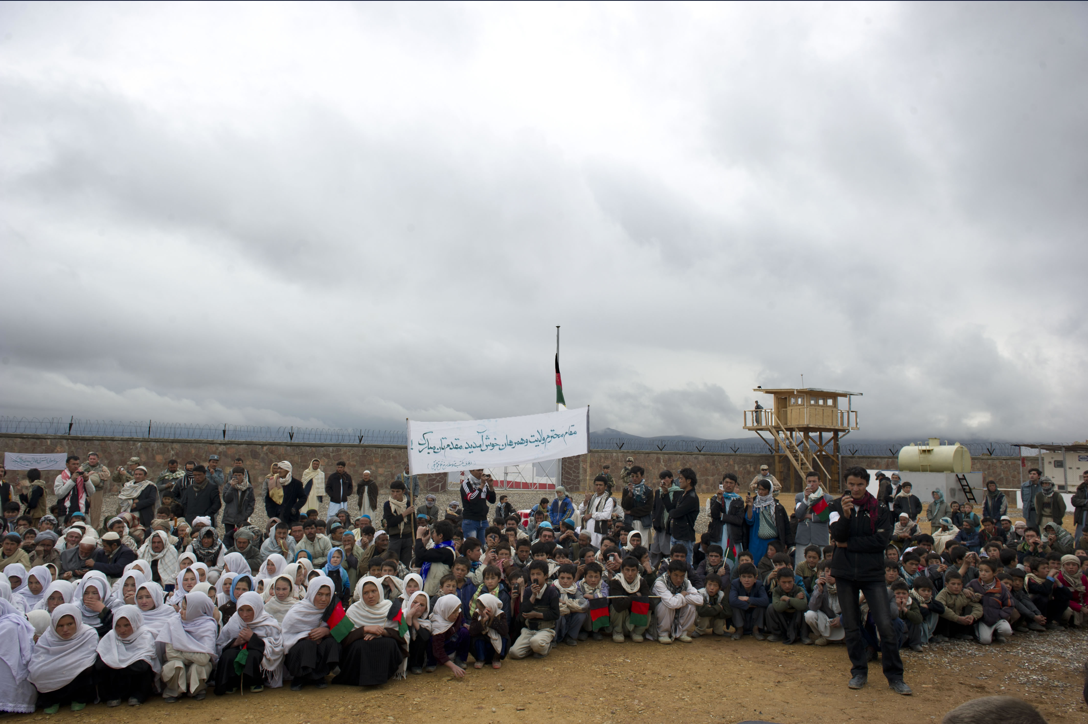 Opening ceremony of an Afghan National Police (ANP) district headquarters in Ashtarli, Daikundi Province, Afghanistan. Local residents at the ceremony.